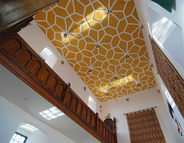 Ceiling of the Staircase Hall of Herstmonceux Castle. The upside down shafts sunlight are a reflection off the moat 1530793